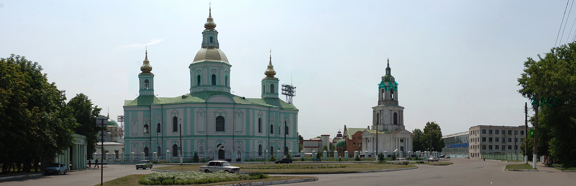 Pokrovskiy cathedral in Okhtyrka, Ukraine